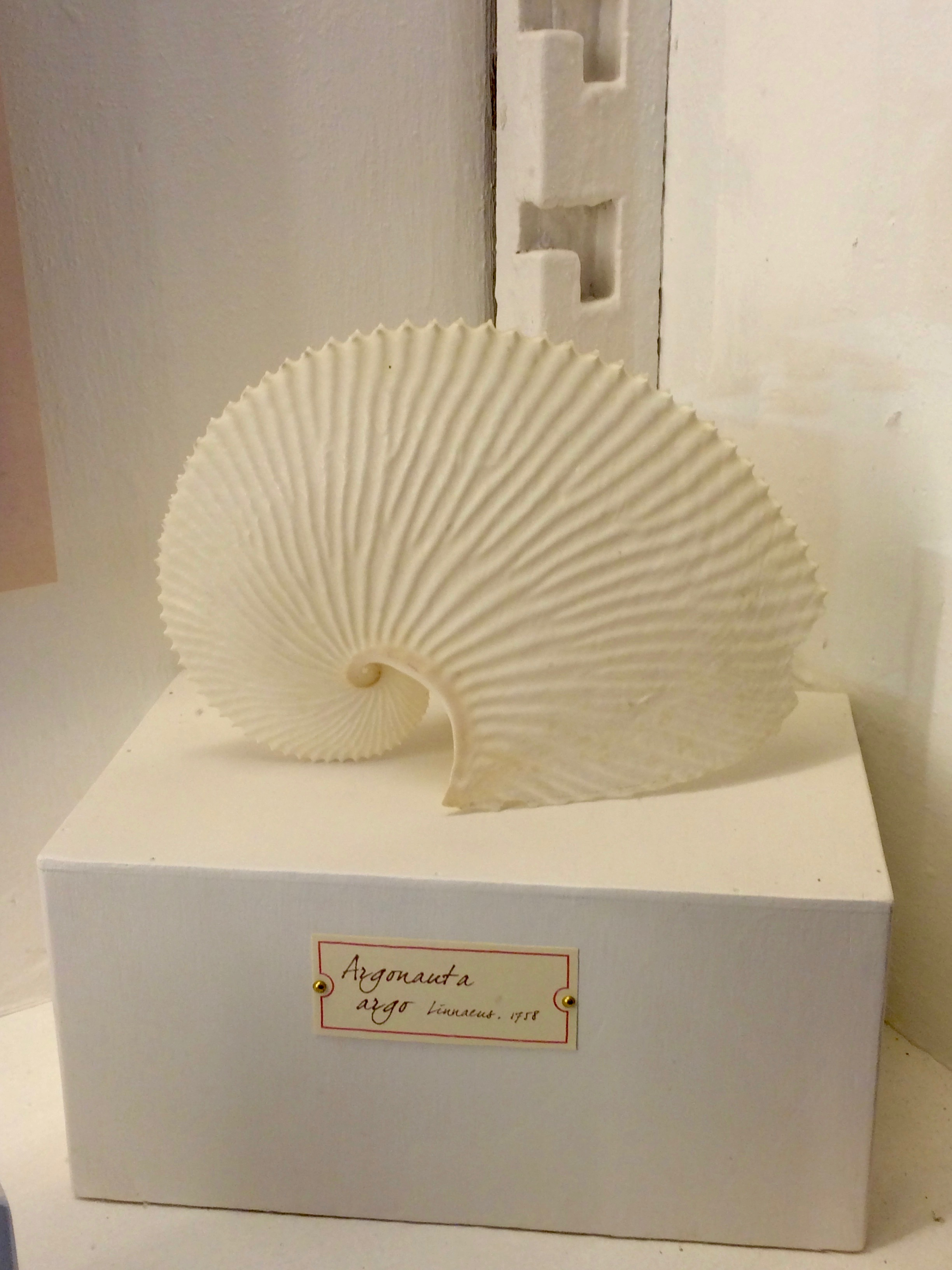 Argonauta argo's shell preserved at the Natural History Museum of Pisa University. This shell was used by Linnaeus to descrive the species.